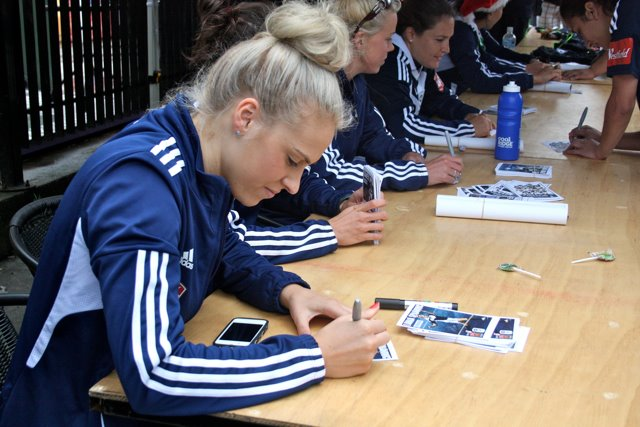 Laura Spiranovic of Melbourne Victory W-League signs an autograph for a supporter during the club's Family Day at Luna Park.